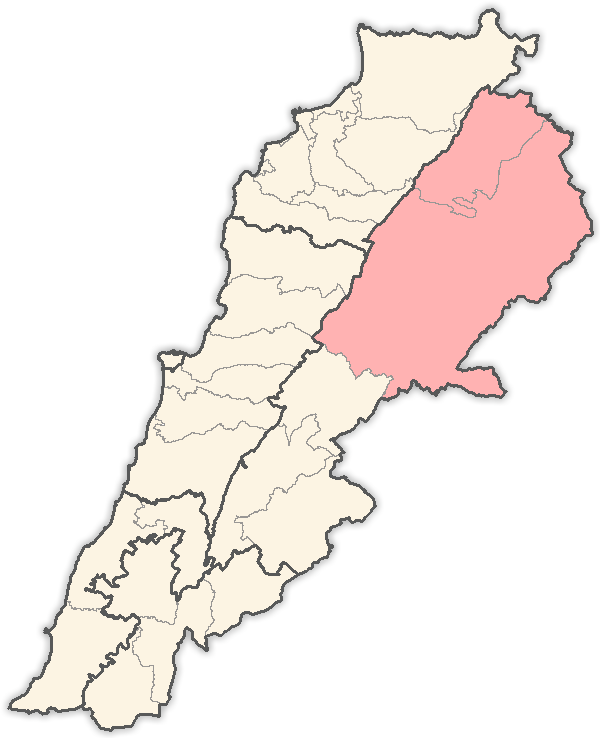 Map of districts in Lebanon, highlighting the Baalbek and Hermel Districts (the planned Baalbek-Hermel governorate)